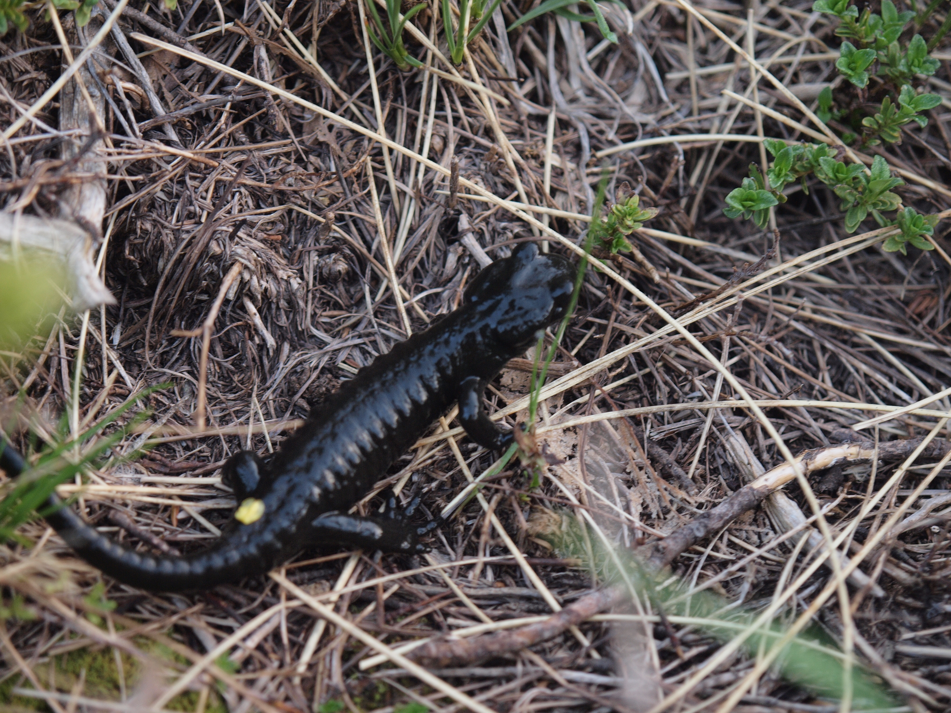 Salamandra atra ssp. prenjensis leg P. Cikovac Mt Orjen Montenegro